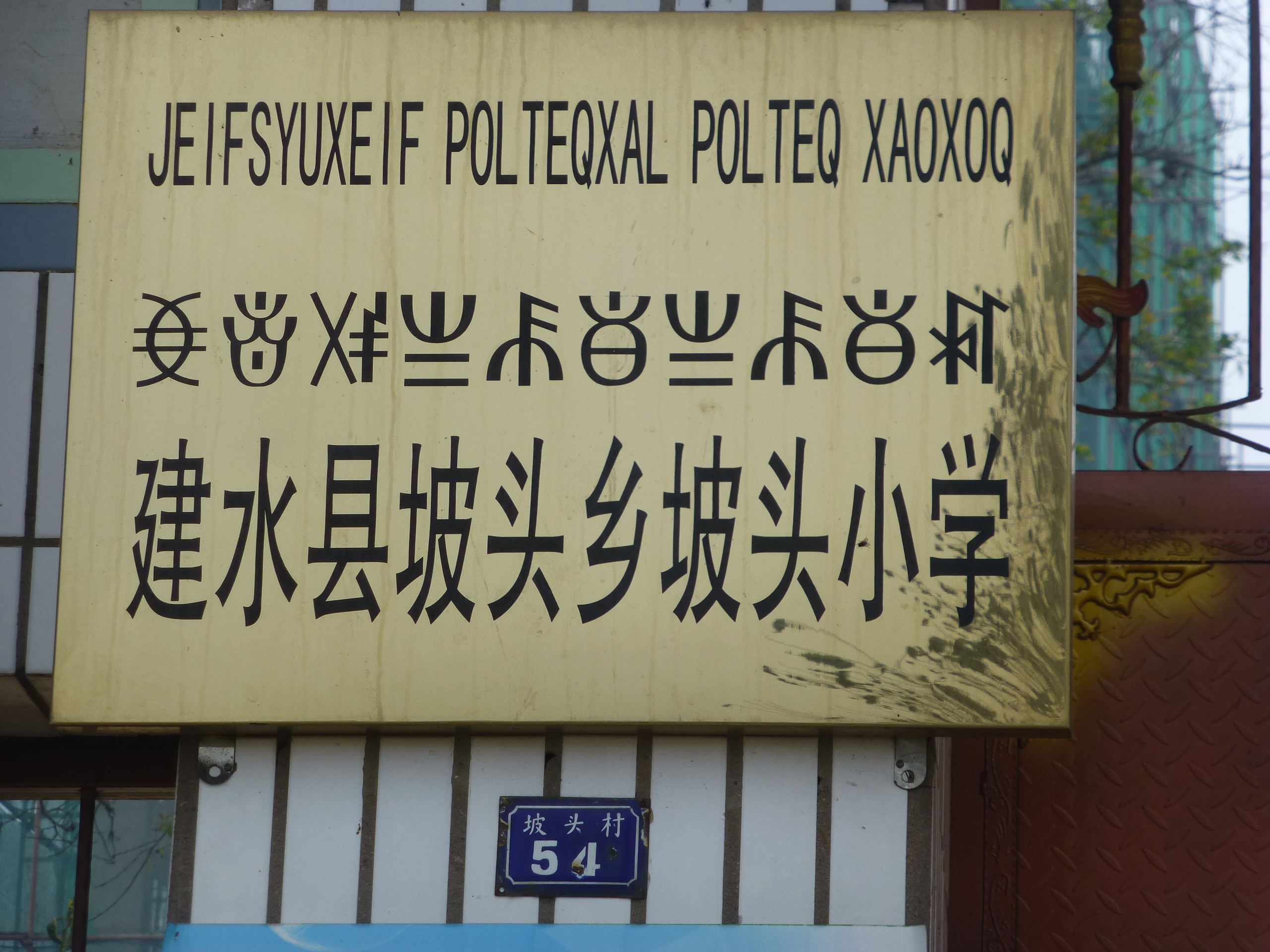 Jianshui County Potou Township Elementary School (or, according to another sign, Potou Township Ethnic Elementary School), in Potou Village, the center of Potou Township. Trilingual sign in Hani (alphabetic), Yi (syllabic), and Chinese